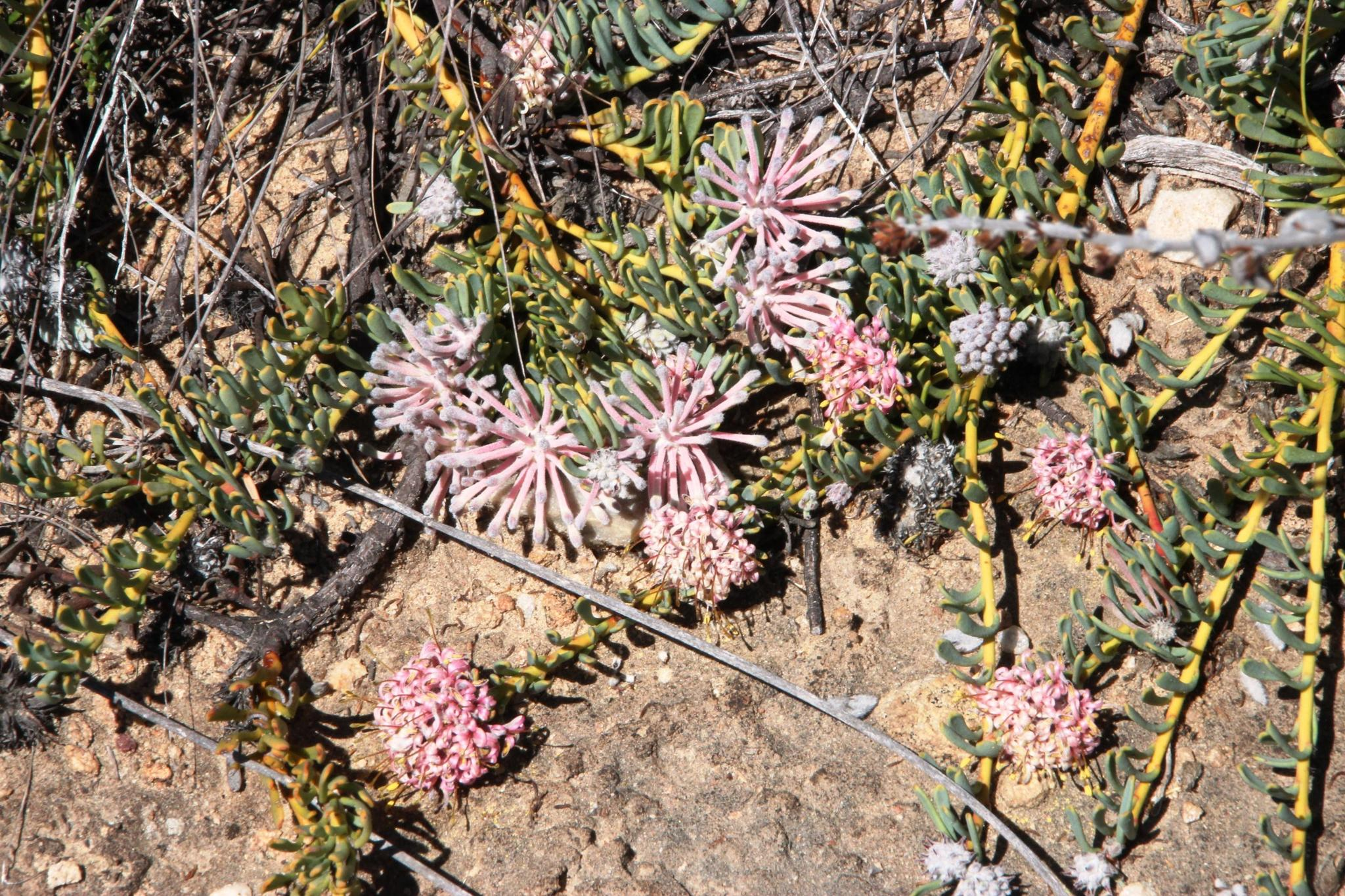 Some flowering stems of the Montagu vexator, Vexatorella obtusata subsp. obtusata, photographed by Tony Rebelo on 10 October 2015 at the track to the summit, west of the Driekuilen Dam at Driekuilen Nature Reserve